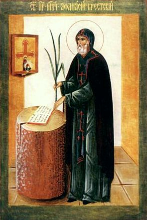 Saint Aphanasiy of Brest